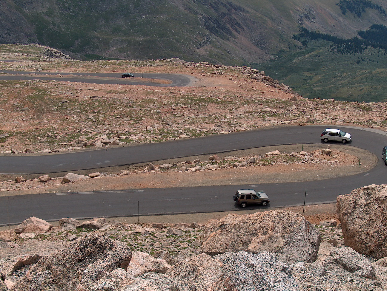 Mount Evans Scenic Byway, Colorado.